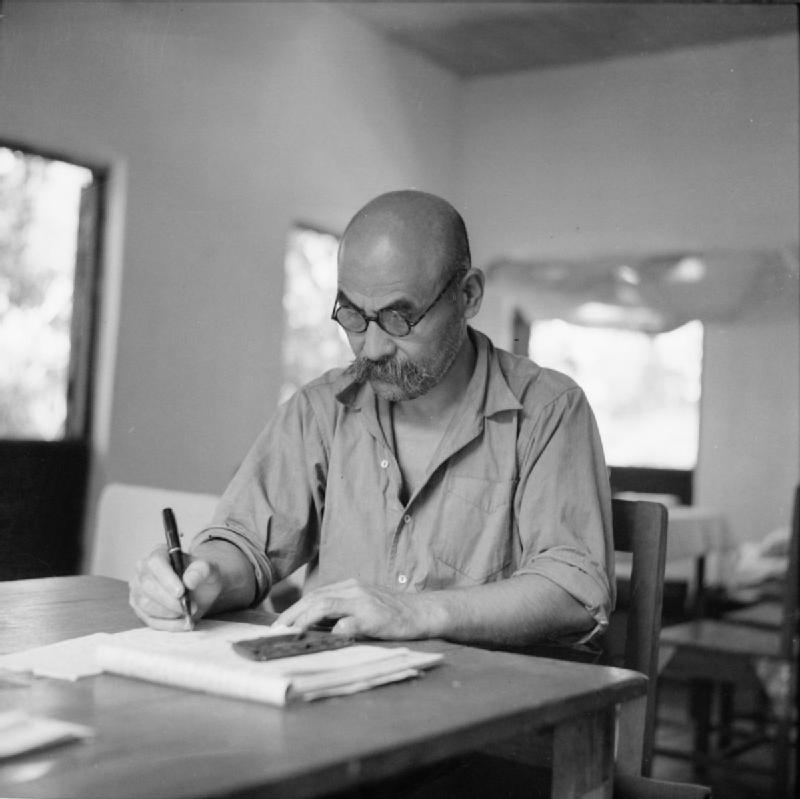 The British Reoccupation of Burma Lieutenant General Tanaka, one of seventeen Japanese generals held as prisoners of war at Insein near Rangoon, passes the time by writing his diary. Also held at the camp were three colonels, three lieutenant colonels, five majors, three captains, five lieutenants, twenty three other ranks and one naval captain. A number of these men, including Tanaka, were suspected war criminals.